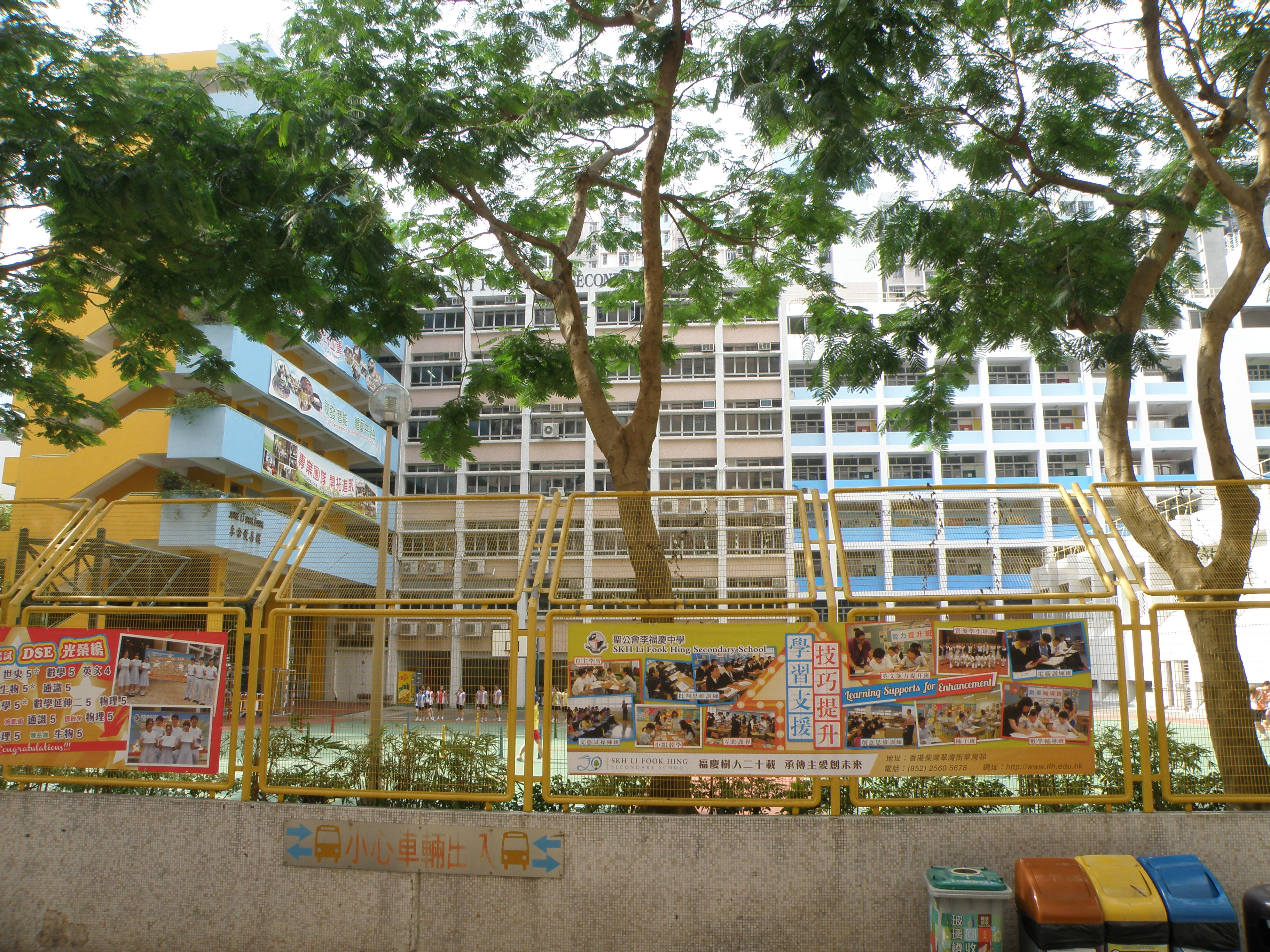 SKH Li Fook Hing Secondary School in Chai Wan, Hong Kong.